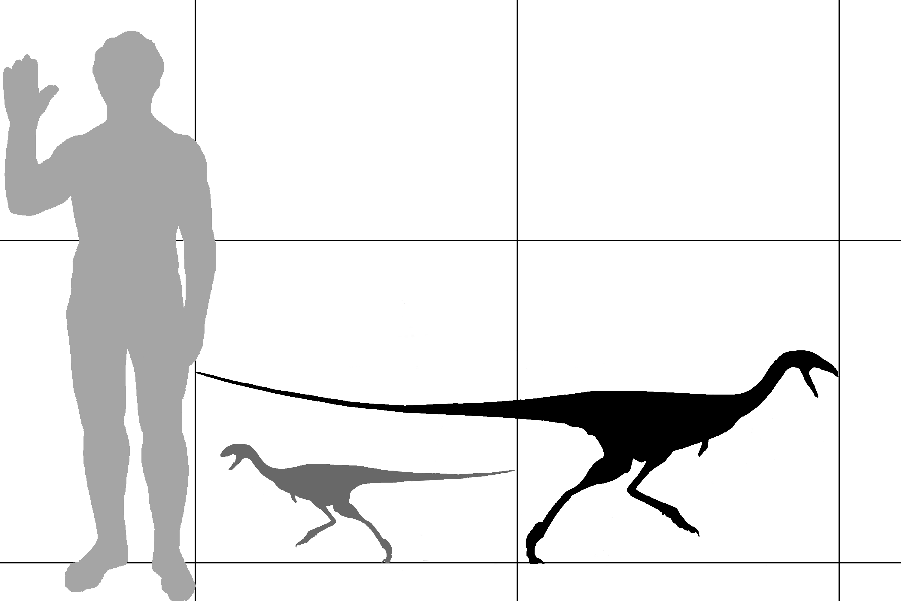 Size comparison of Limusaurus adult (black), young juvenile (dark grey) and a human (light grey). Scale boxes are 1 m. Human silhouette by Nasa, Limusaurus silhouettes modified from a skeleton by Jaime Headden, both on commons. Also matches published skeletal reconstruction by Gregory S. Paul in the 2016 book The Princeton Field Guide to Dinosaurs.